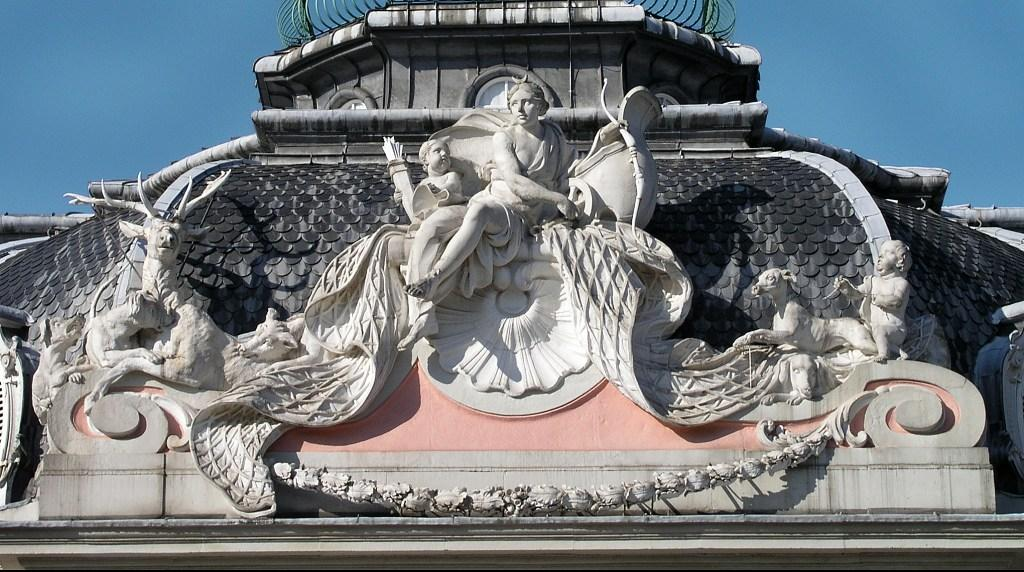 Wuppertal, North-Rhine/Westphalia (Germany): Düsseldorf, castle Benrath, photo 2003